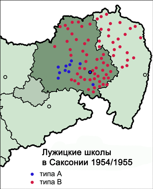 Sorbian schools in Saxony, 1954/1955